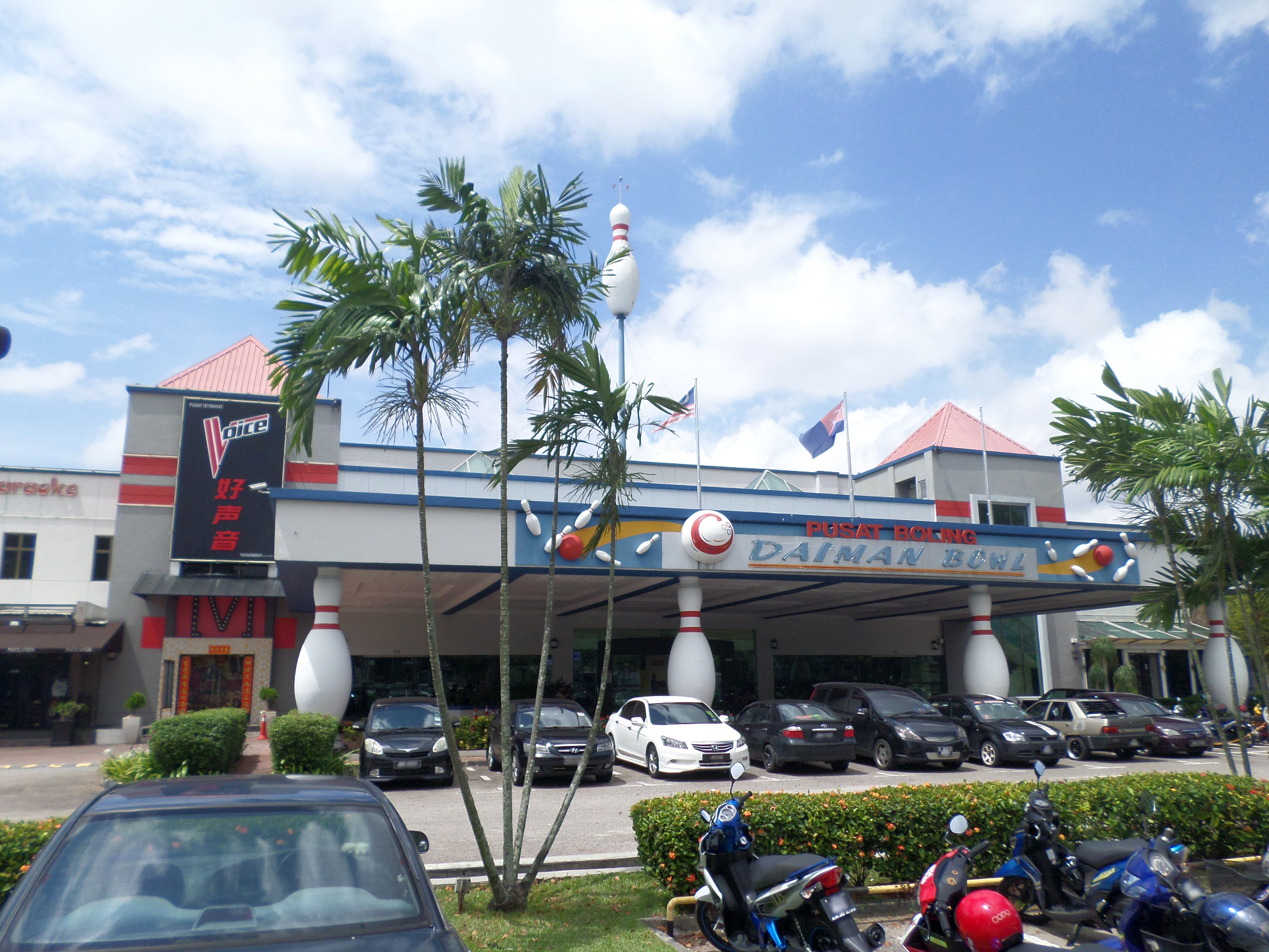 Daiman Bowl, Johor Jaya, Johor Bahru, Johor, Malaysia